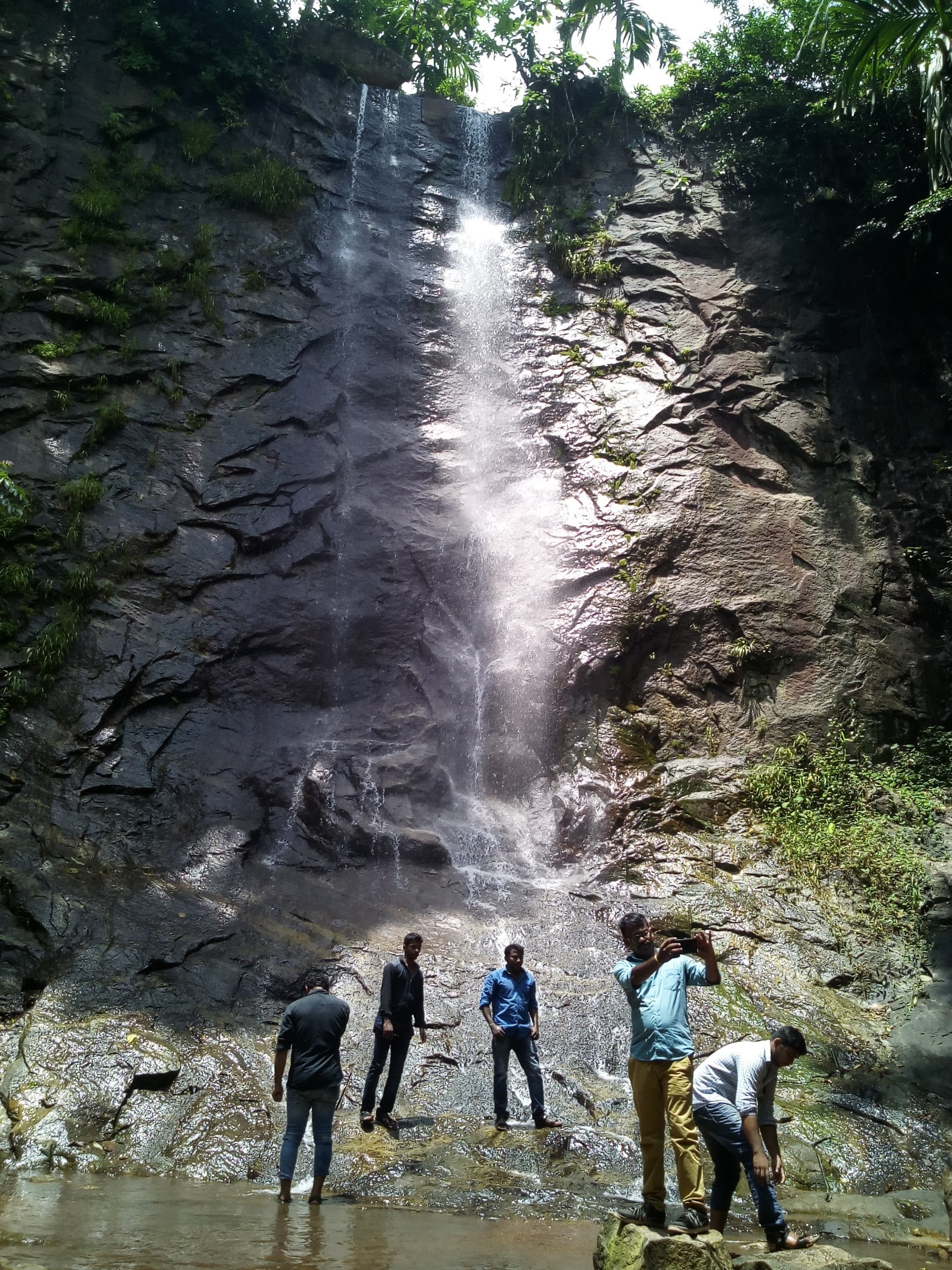 T